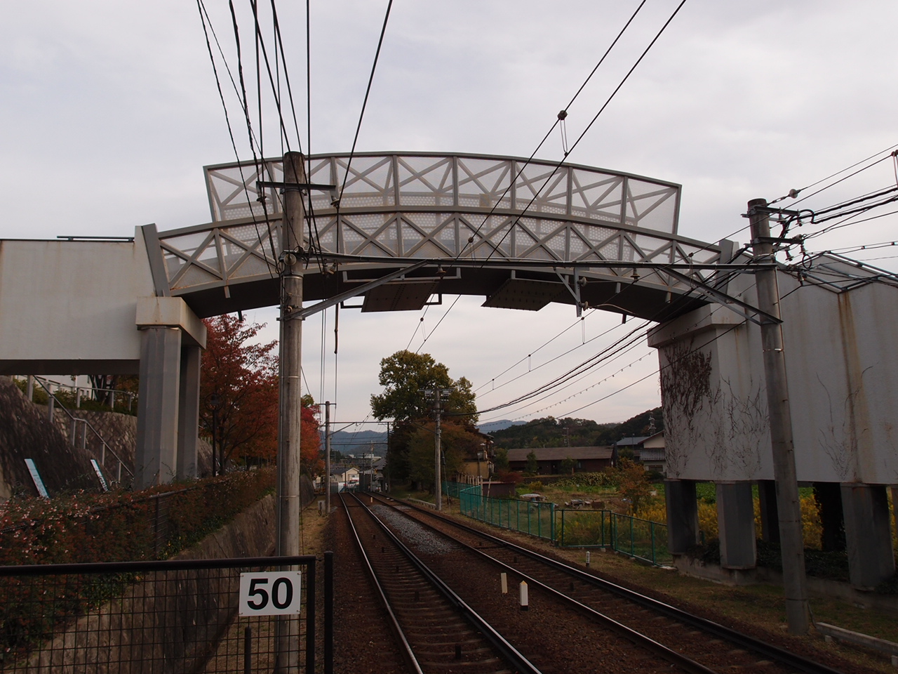 The bridge beside Kyoto Seikadai-mae Station, Eizan Electric Railway, Japan, which connects two sides of the station.